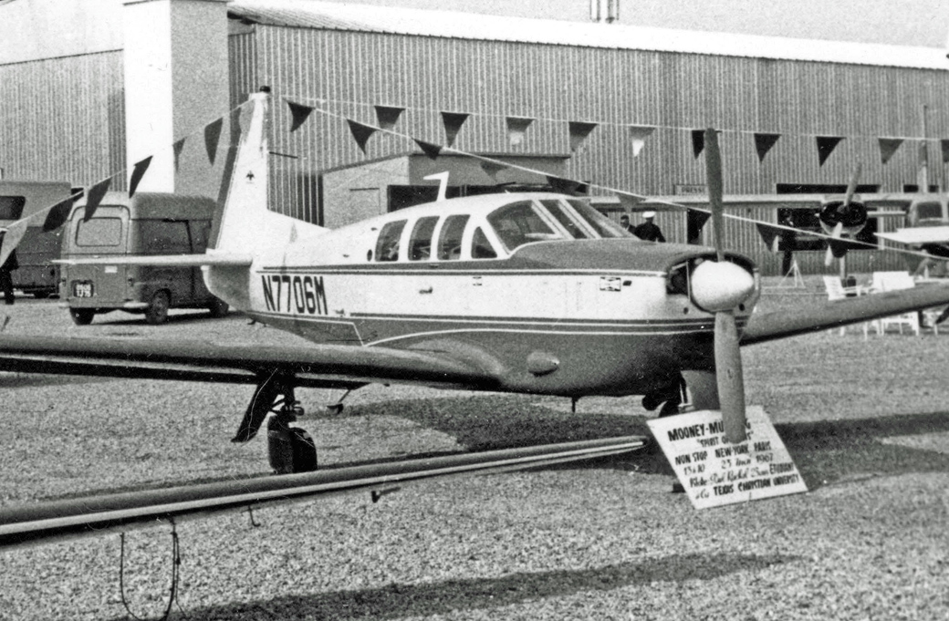 The second production Mooney M22 Mustang at the Paris Air Salon in June 167. Board states the aircraft had flown non-stop from New York to Le Bourget in 13 hours 10 minutes, arriving that morning.